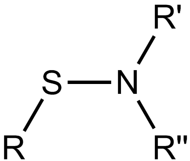 sulfenamide structure